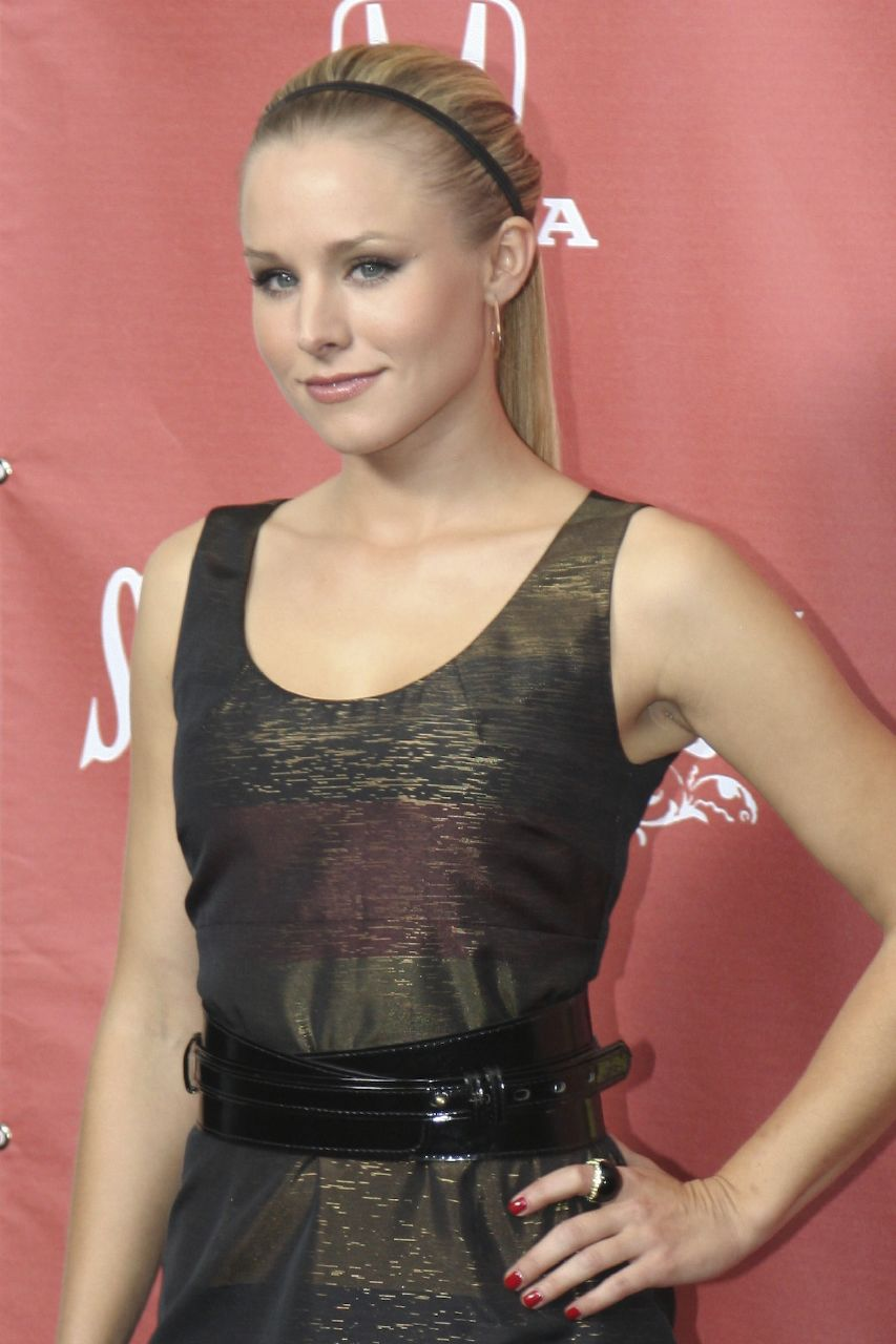 American actress Kristen Bell. Taken at the 2007 Scream Awards.